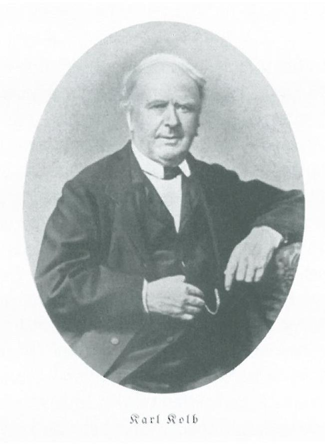 Karl von Kolb (1800–1866), merchant, banker and consul of the Kingdom of Württemberg in Rome